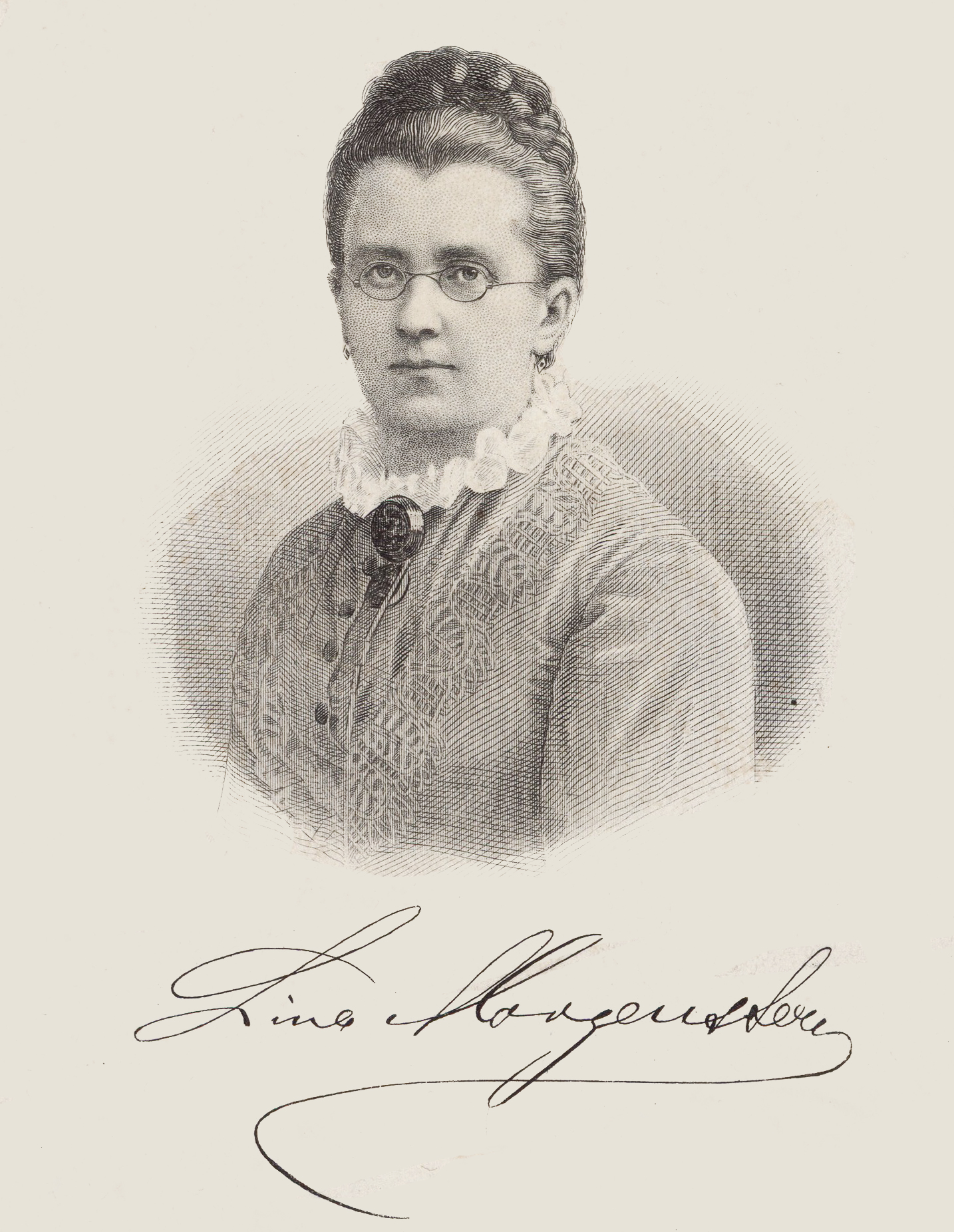 Picture of Lina Morgenstern